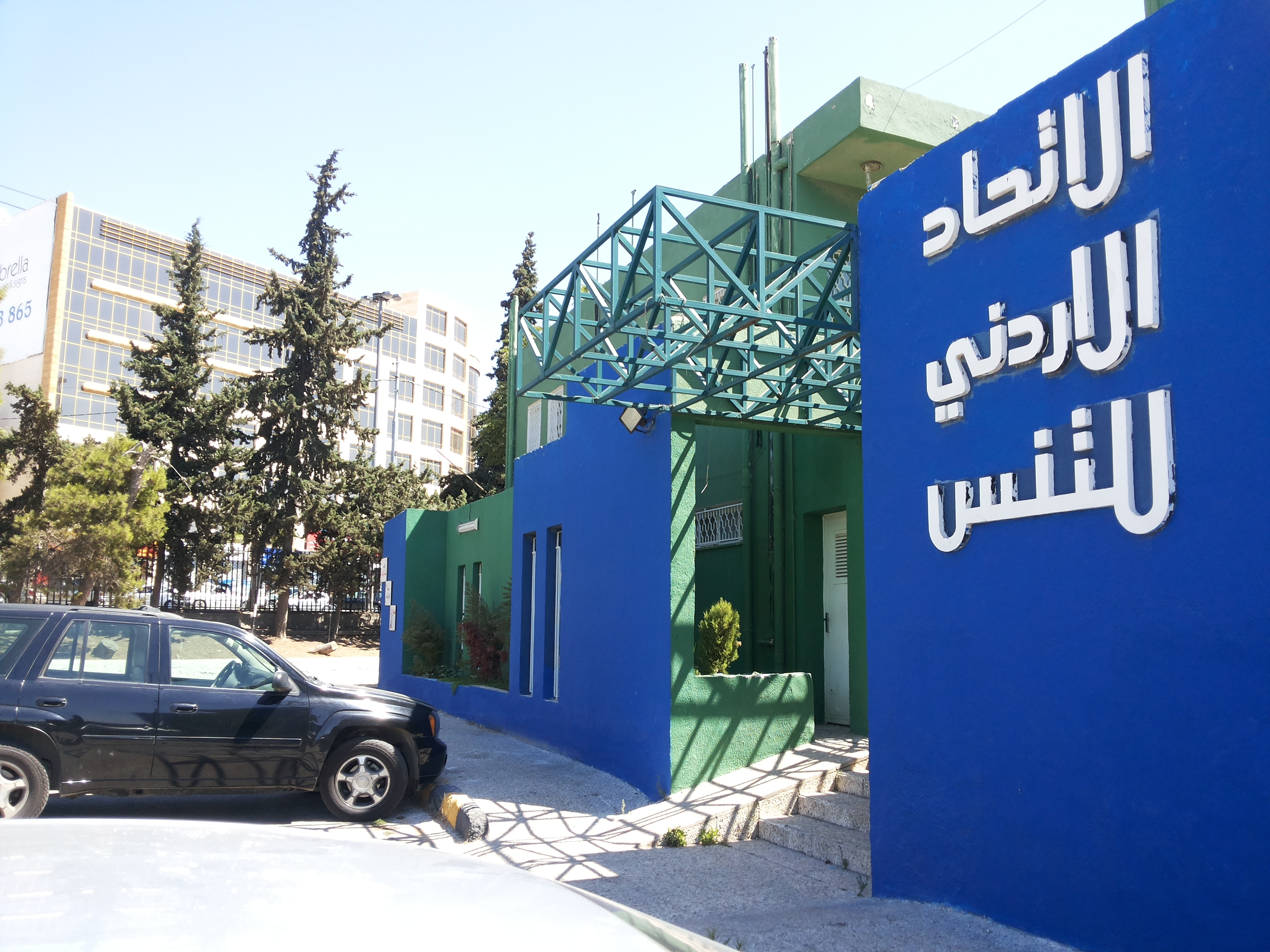 Jordan Tennis Federation at Al Hussein Youth City, Amman, Jordan.